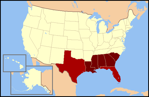 Deep South. The states in dark red compose the Deep South today. Adjoining areas of East Texas and North Florida are also sometimes considered part of this subregion.